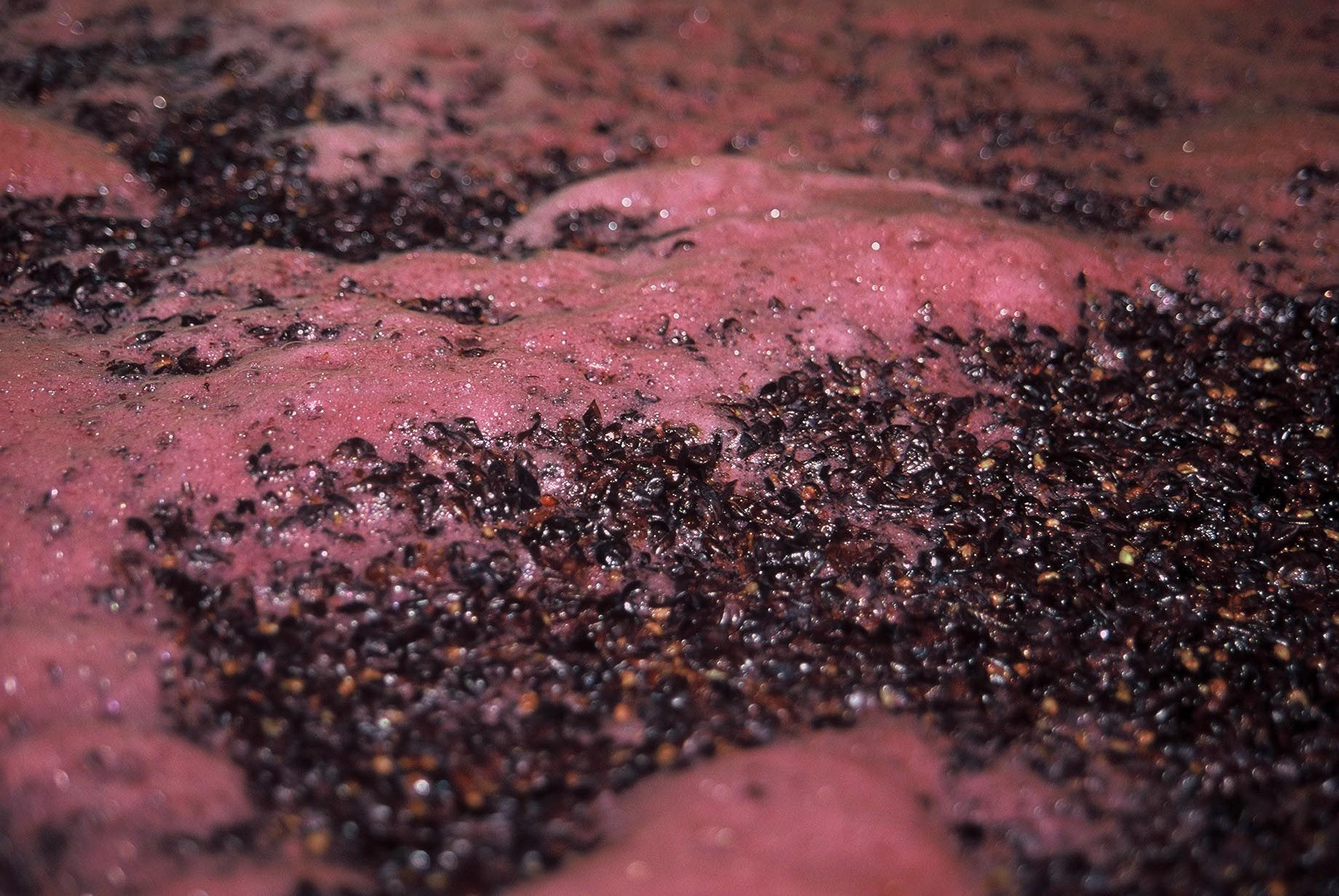 The cap of Pinot noir grapes during fermentation. The bubbling comes from the carbon dioxide being produced.